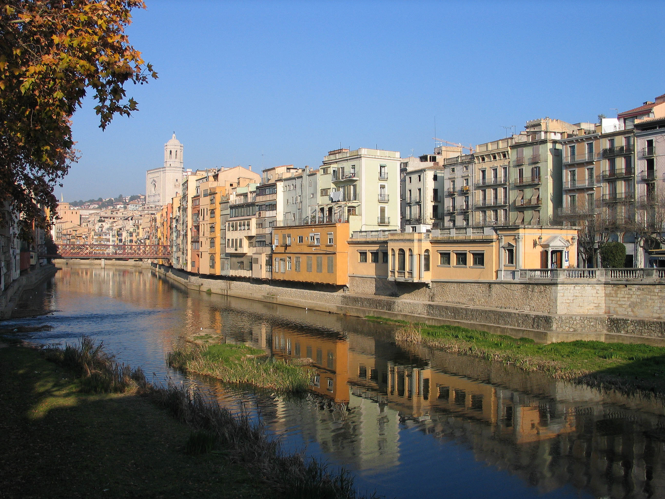 River Onyar in Girona.